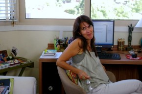 The Brazilian writer Martha Medeiros, during and interview at TV Brasil